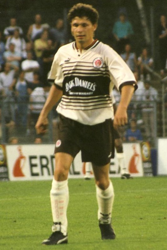 Juri Sawitschew as Player of FC St. Pauli